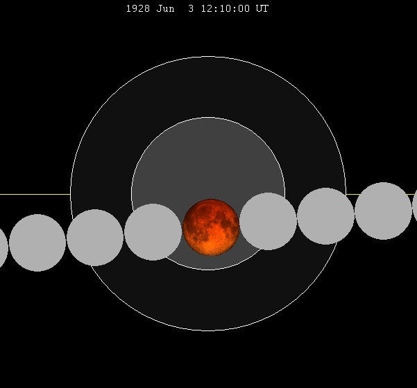 June 1928 lunar eclipse chart of moon's path through the earth's shadow. thumb